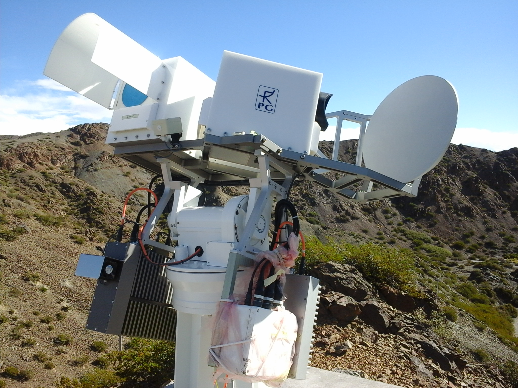 The POEMAS system to monitor the sun at 45/90 GHz with circular polarization.